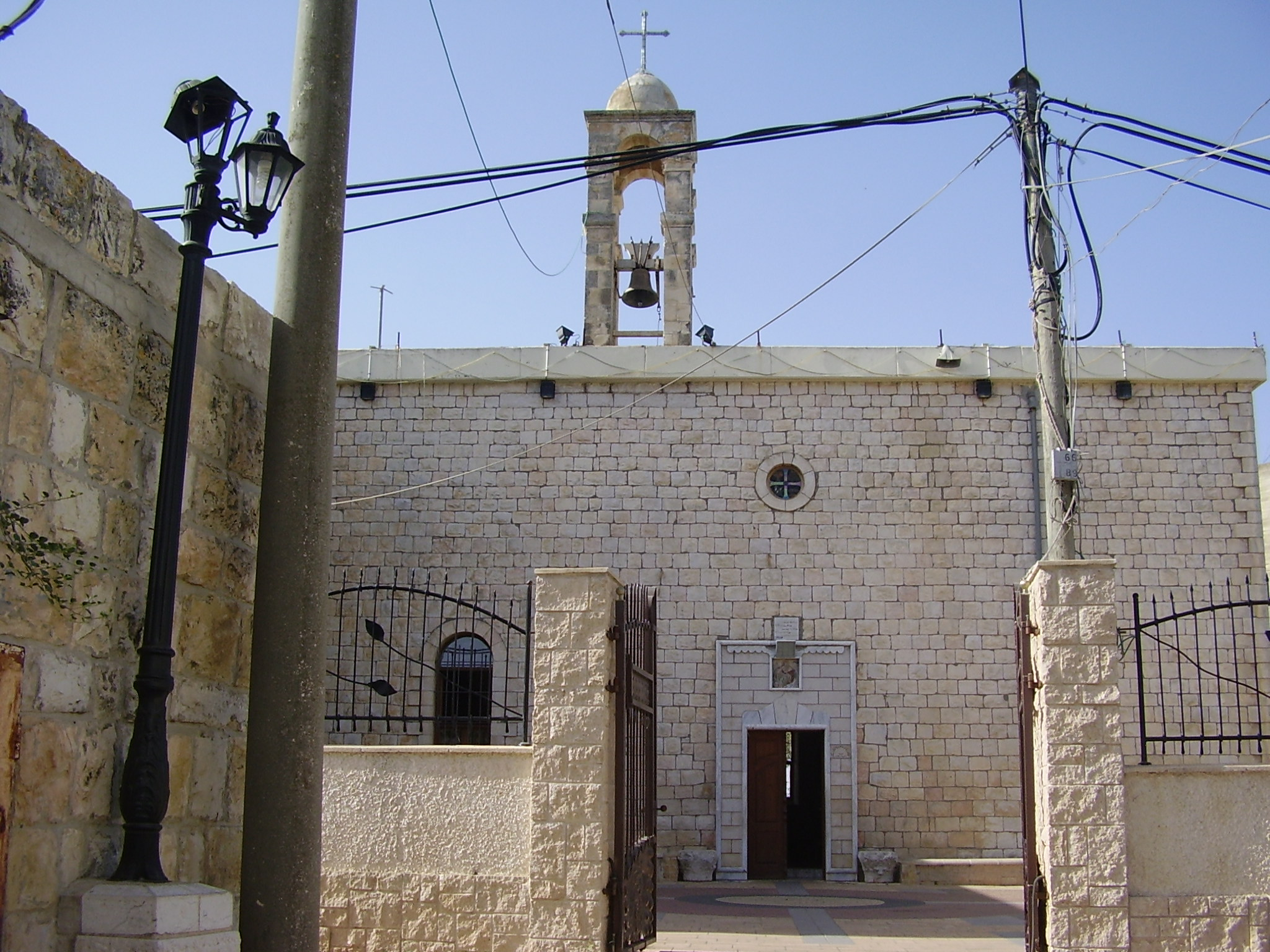 The Mar Elias Church, built 1907, in Fassuta